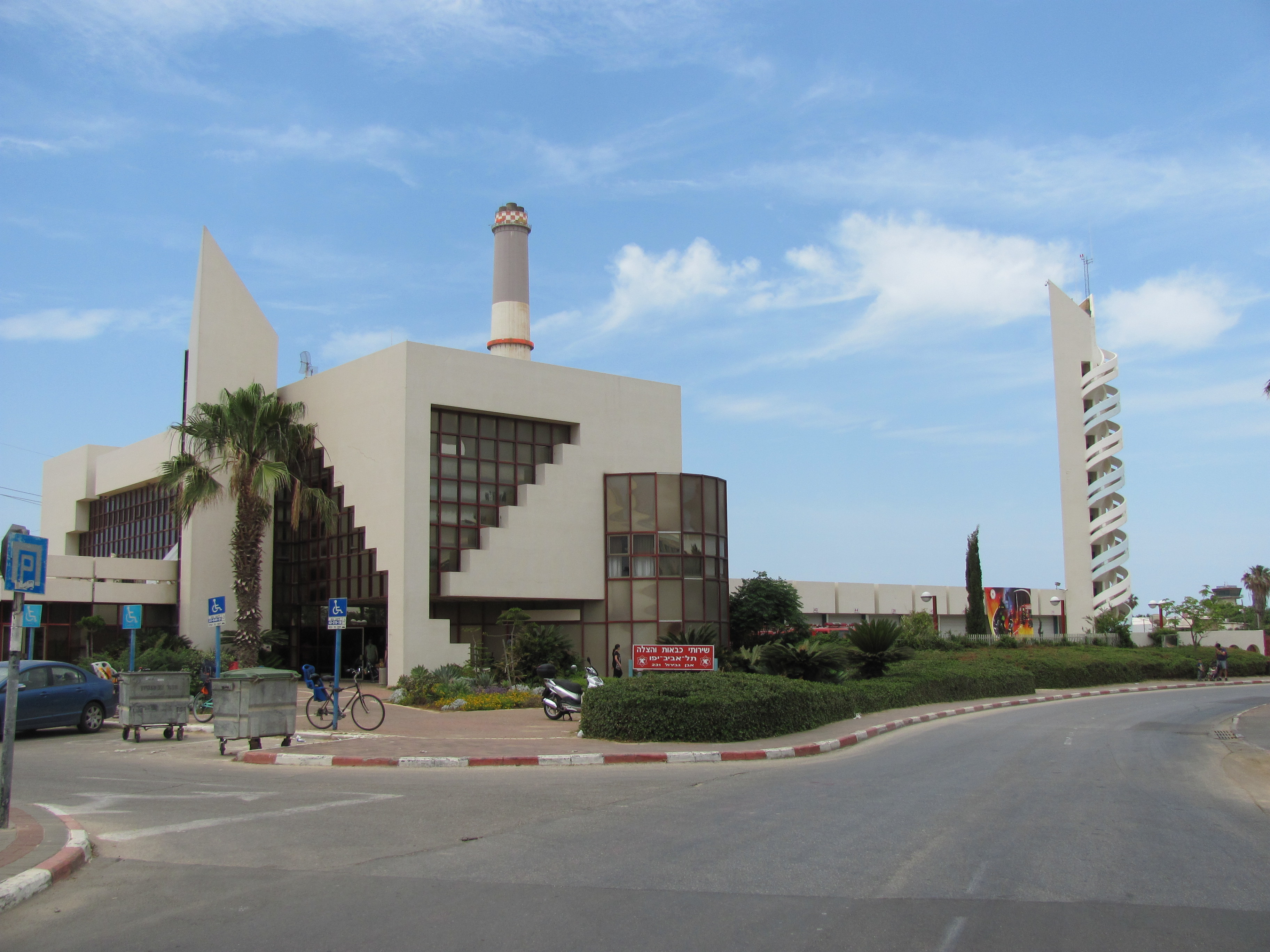 Tel Aviv's main Fire Station.